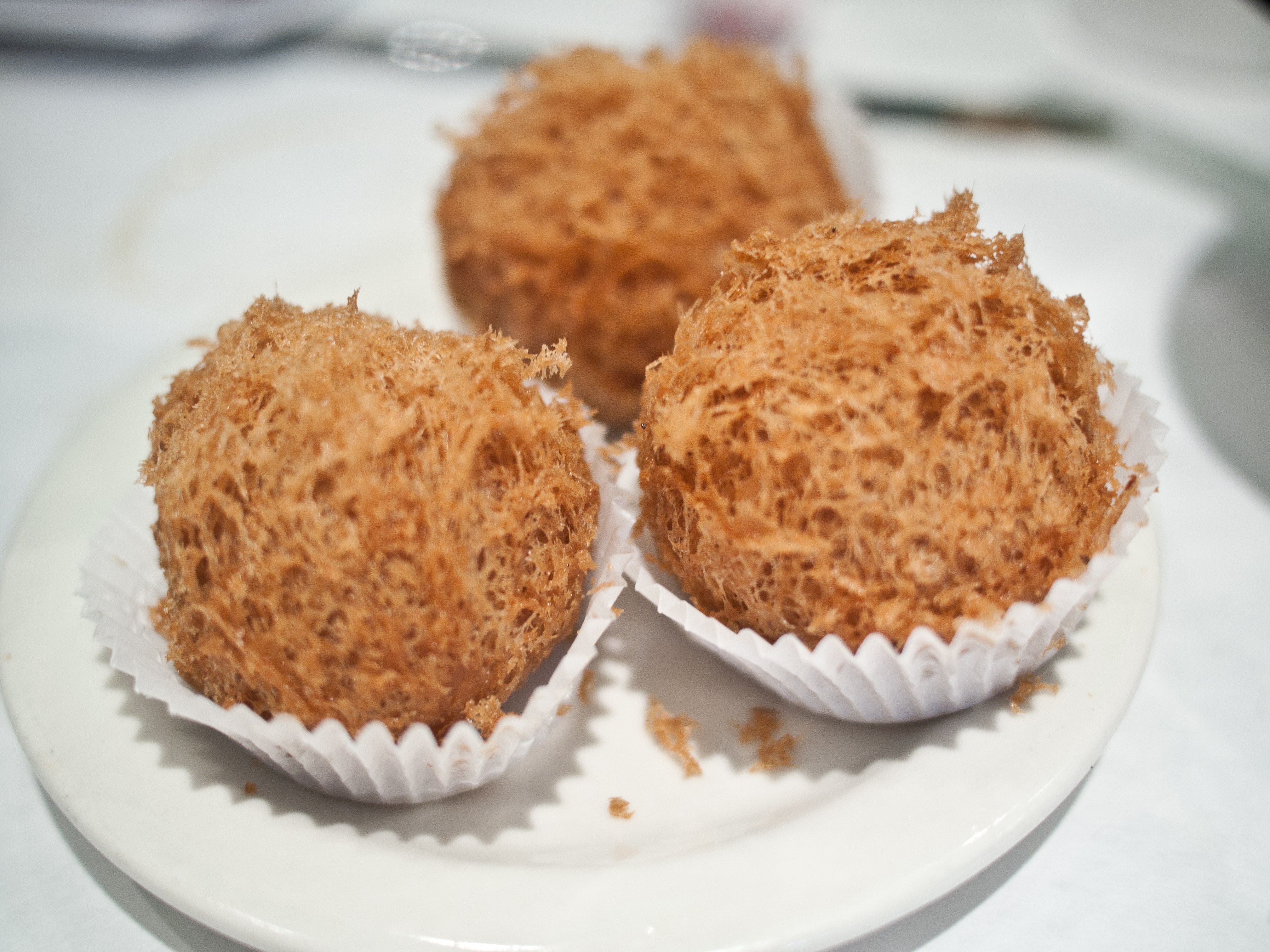 Dish of taro balls at Li Wah Dim Sum